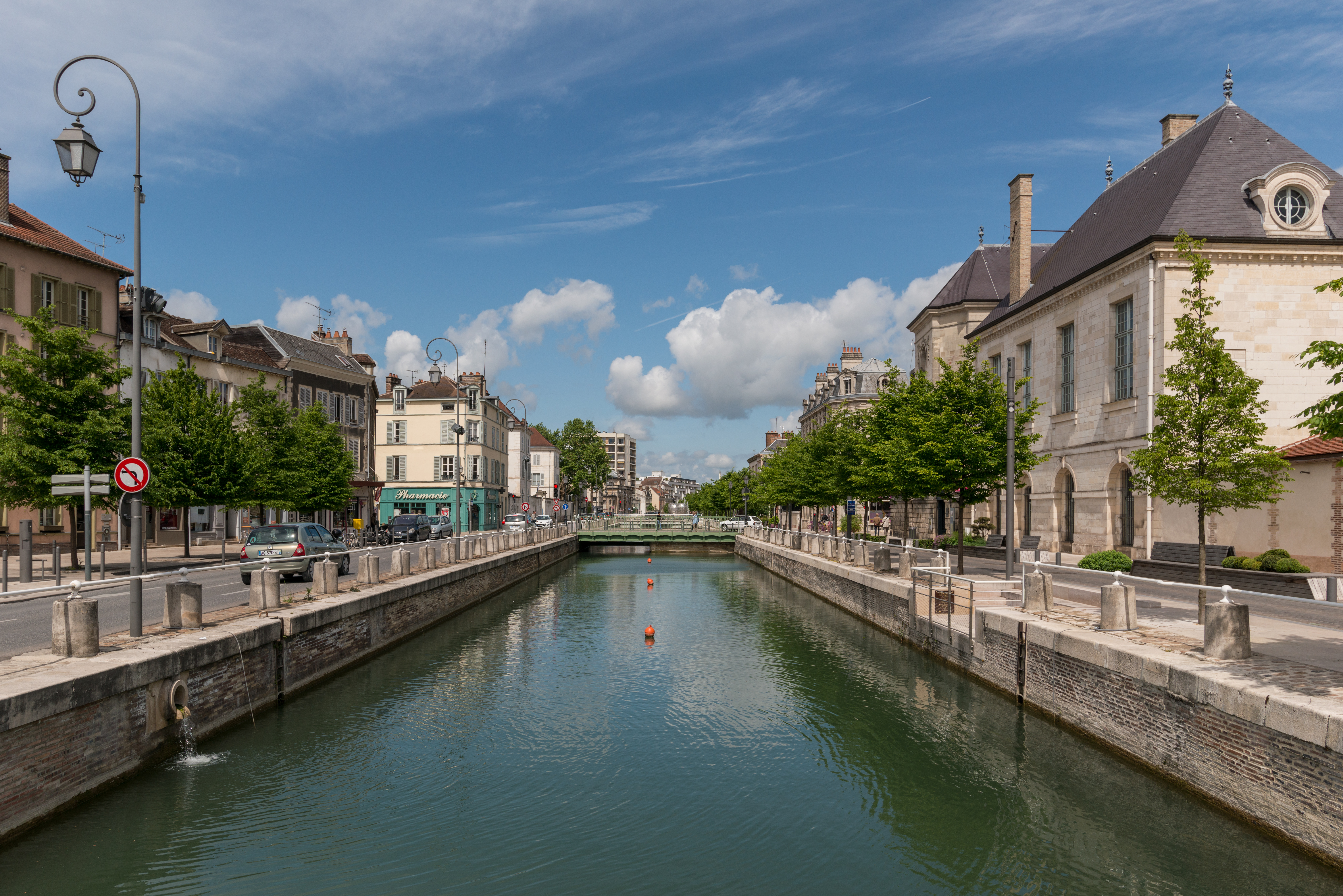 The Canal du Trévois in Troyes, as seen from Rue Roger Salengro